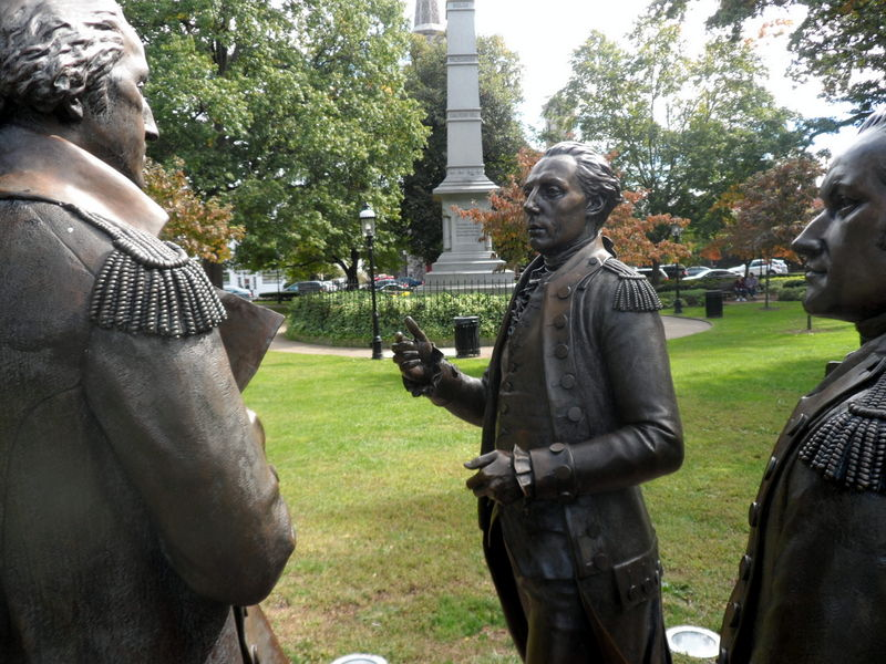 Morristown District